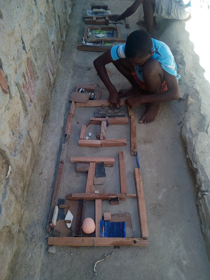 Play is indeed the highest expression of human development in childhood. This picture was taken in a rural area of Benguela, Angola. The child in the picture is is from a poor family and he does not have access to toys as His family can not afford to buy it. But this is not limiting him to play and unlock his imagination. He wants to be an architect, so he is using rest of wood that He collected around the neighborhood and He is designing 3D floor Plan of house in his imagination. This is an image with the theme "Play" from: Angola